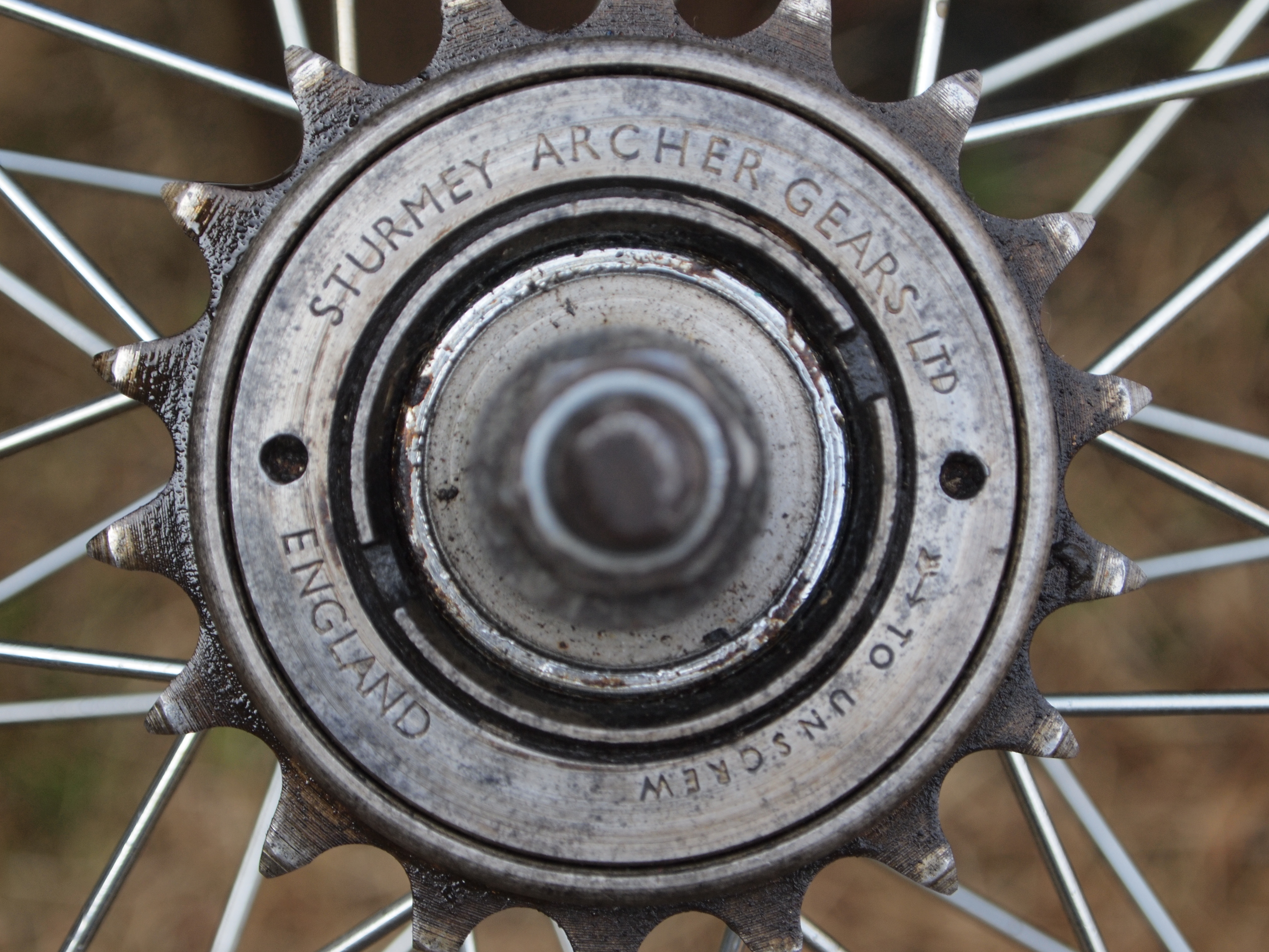 Sturmey-Archer_freewheel